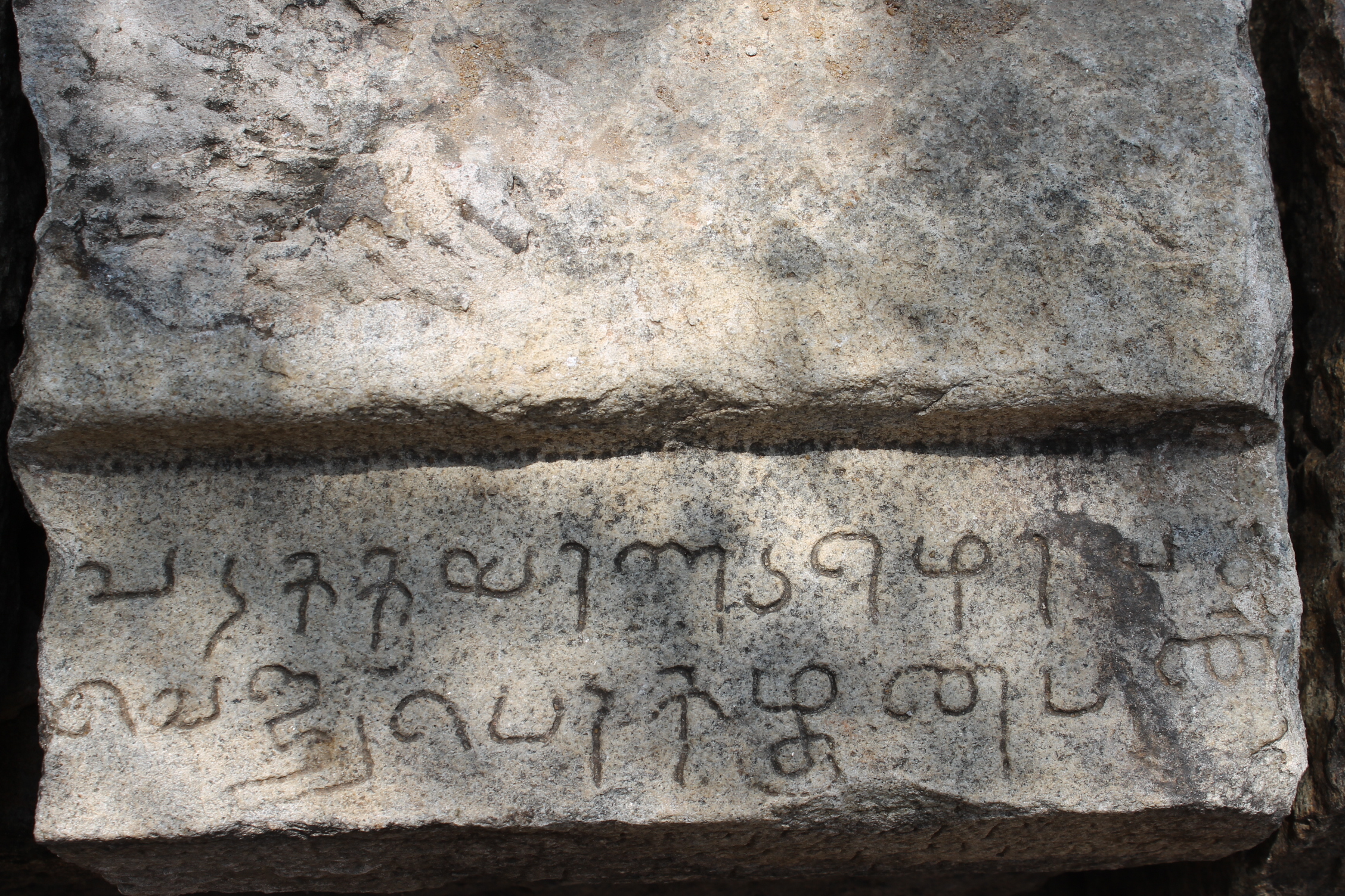 "An inscriptions in Airavatesvara Temple". Location: Chatram, Darasuram, near Kumbakonam, Thanjavur District, Tamil Nadu, India.